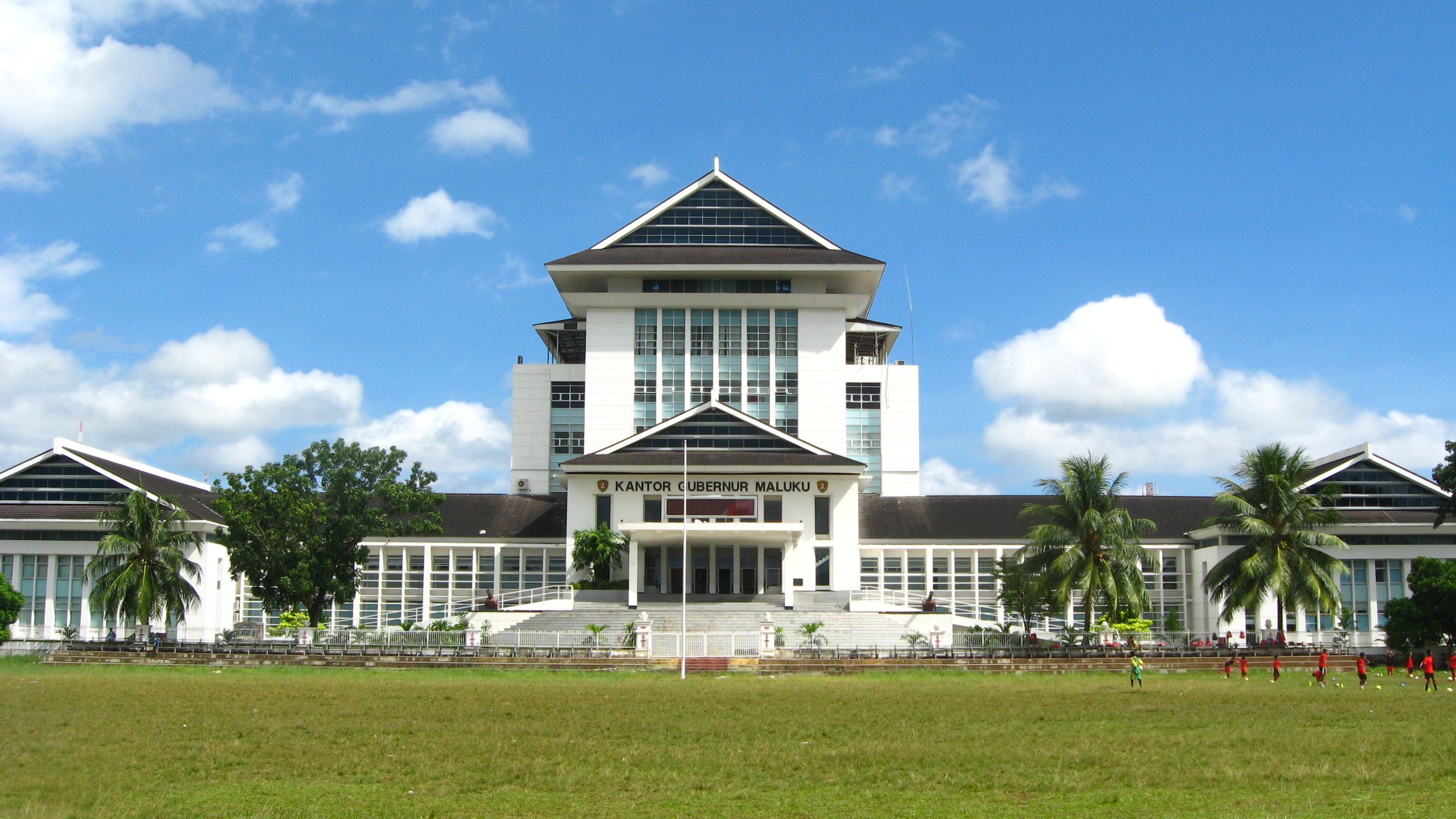 The new building of the provincial authority